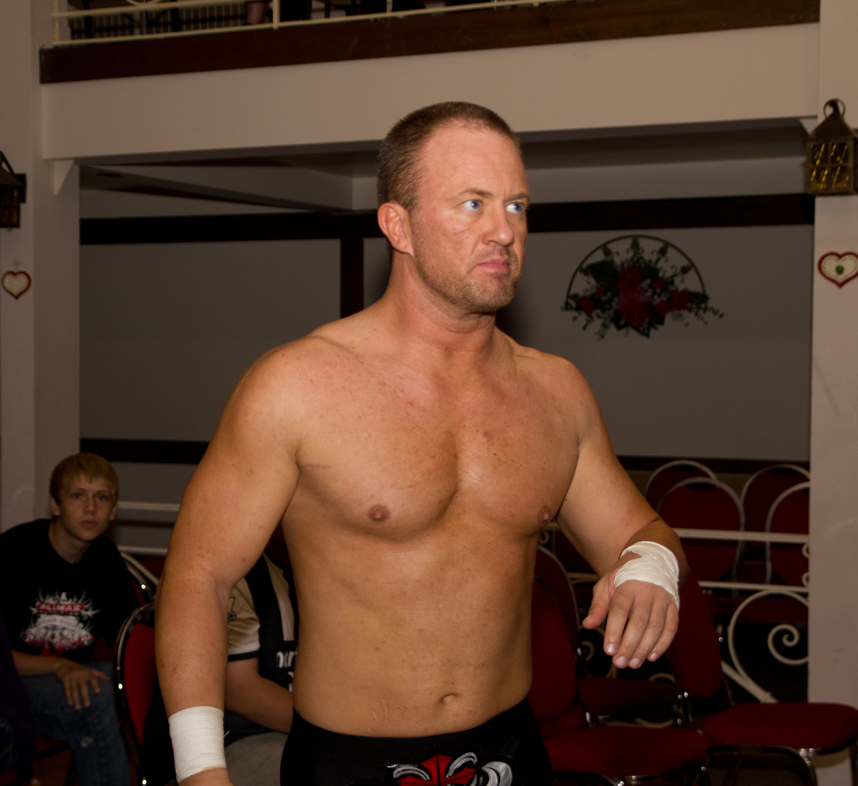 Professional wrestler BJ Whitmer making his ring entrance at an Alpha1 show